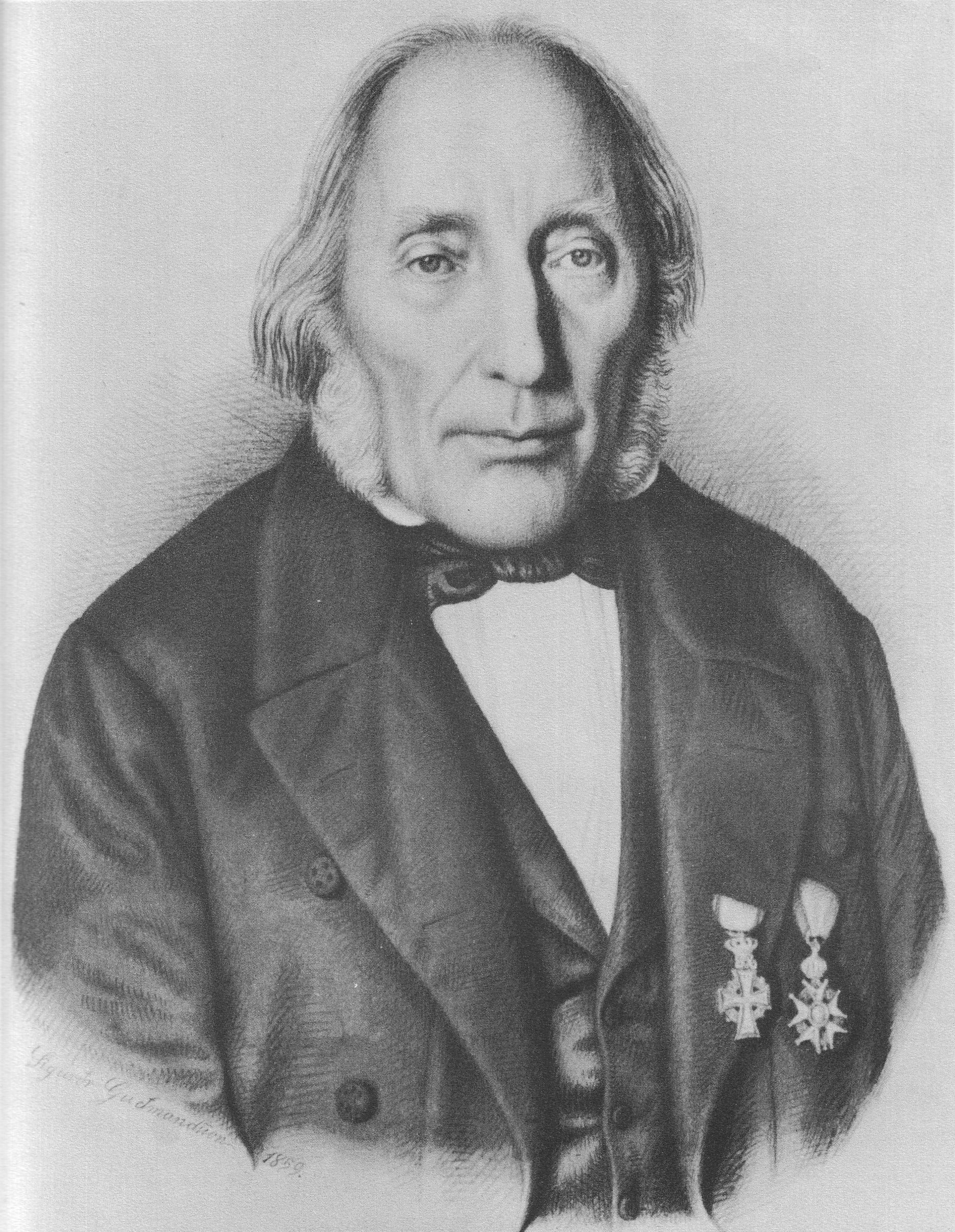 Portrait of Björn Gunnlaugsson (1788 – 1876). Below the portrait is written "Sigurðr Guðmundsson 1859."